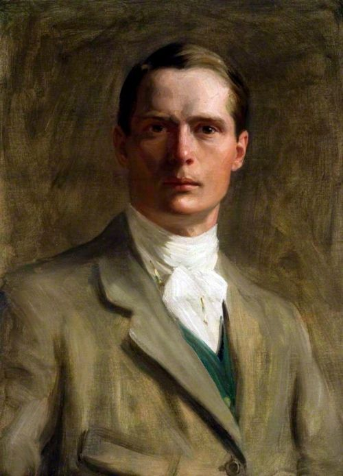 Self-portrait